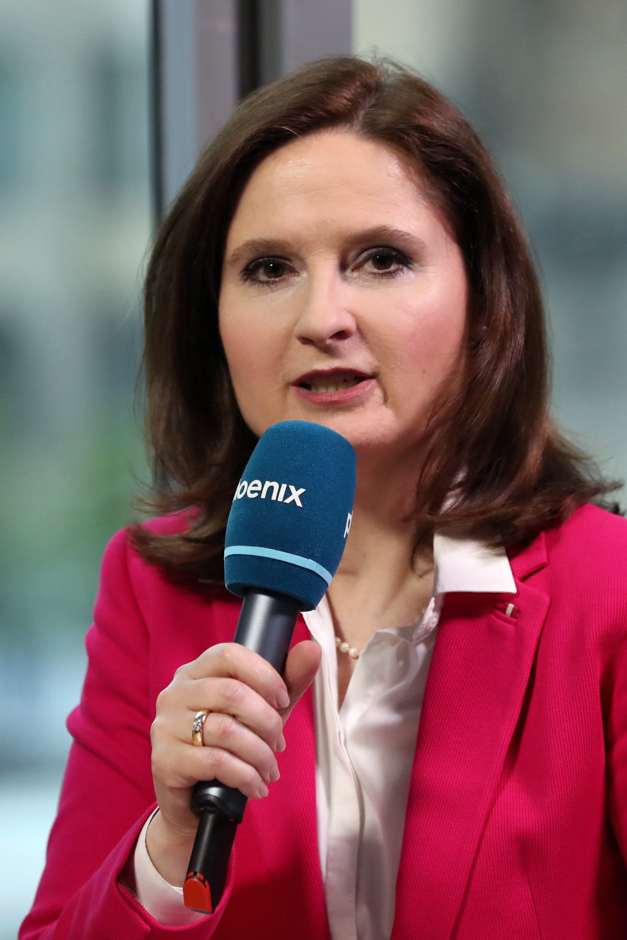 Election night Bürgerschaft of Bremen 2019: Ines Arland (Phoenix)